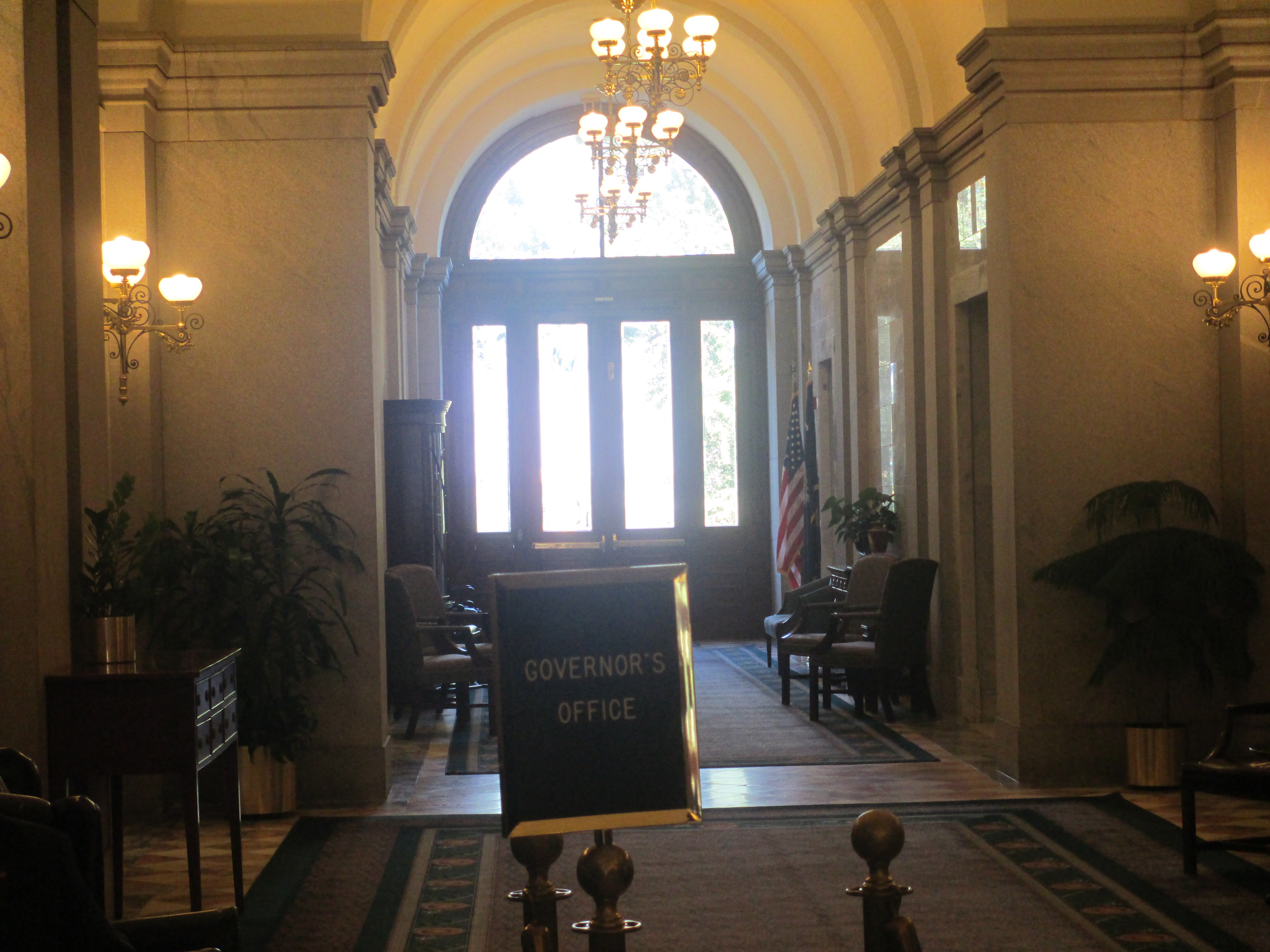 I took photo of exterior of SC governor's office in Columbia, with Canon camera.